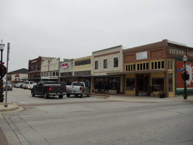 Decatur Town Square